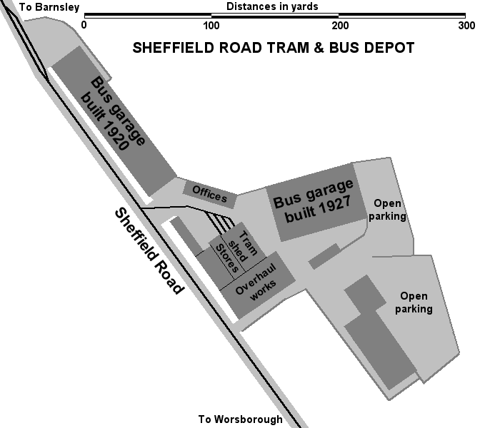 Map of Barnsley & Disctrict Tramway Sheffield Road Depot, Barnsley.